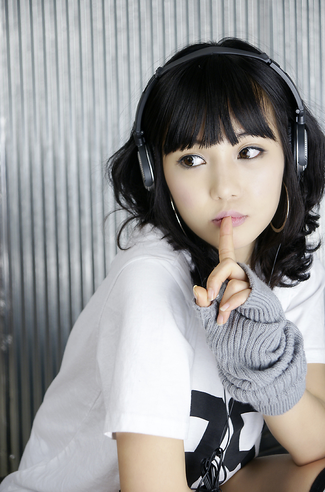 An Asian woman wearing headphones and putting a finger over her lips.